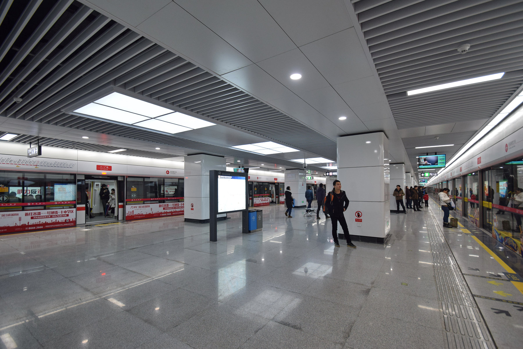 Bayi Square Station, Nanchang Metro Line 1